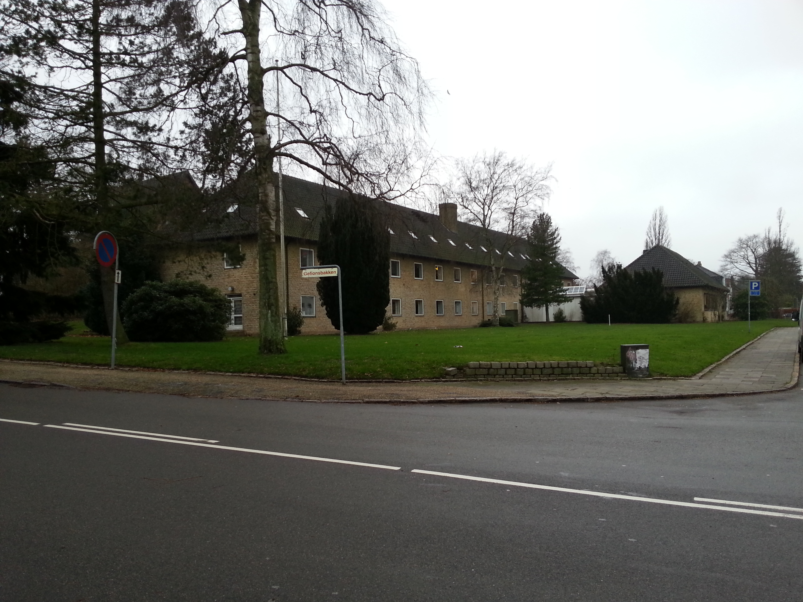 Old Tikøb Municipality building 1